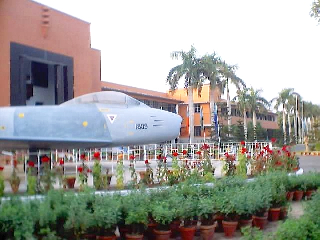 Side view of the PAF Public School, Sargodha, Pakistan